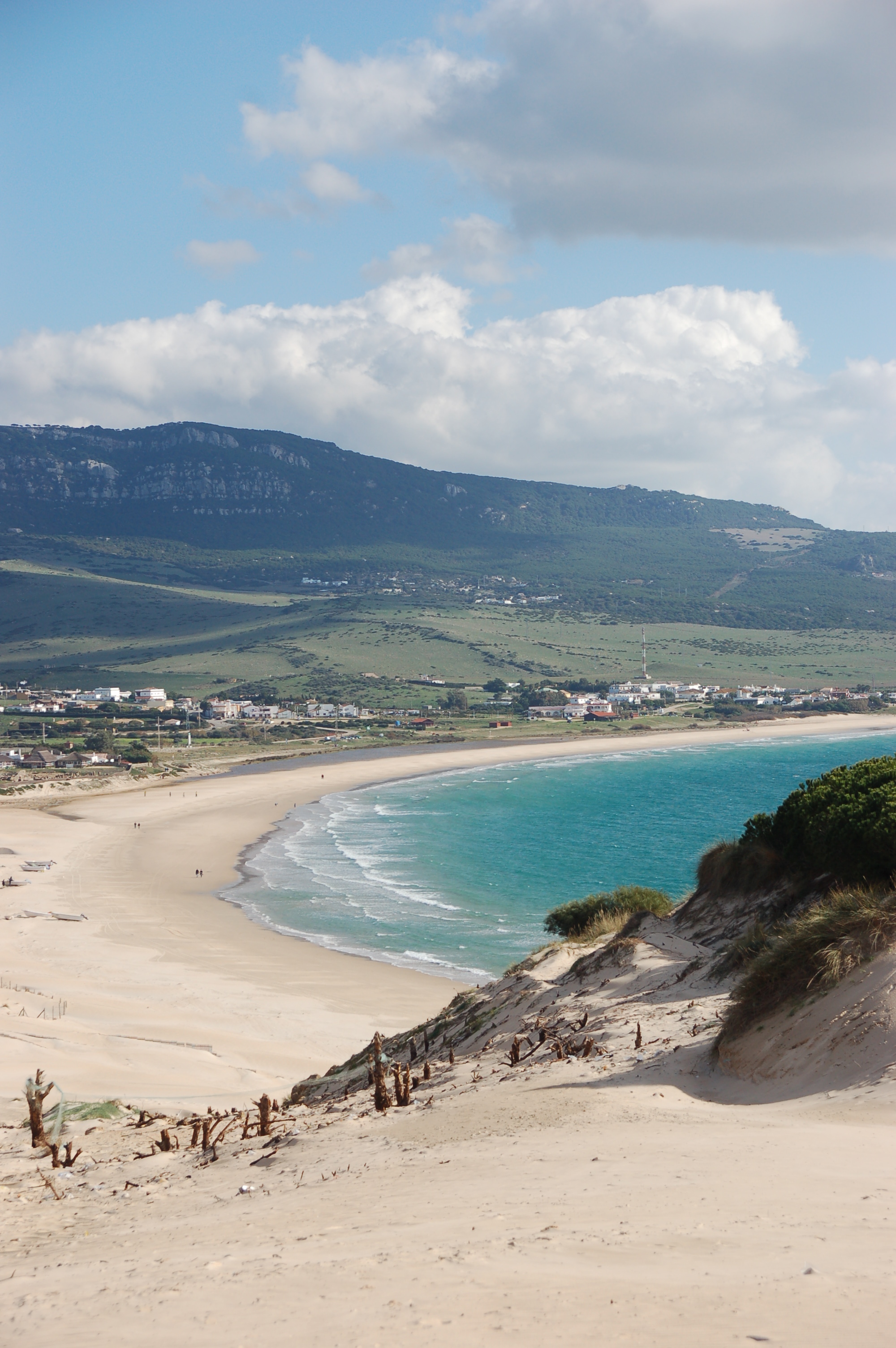 View from the top of the dune of Bolonia, Cádiz, Spain